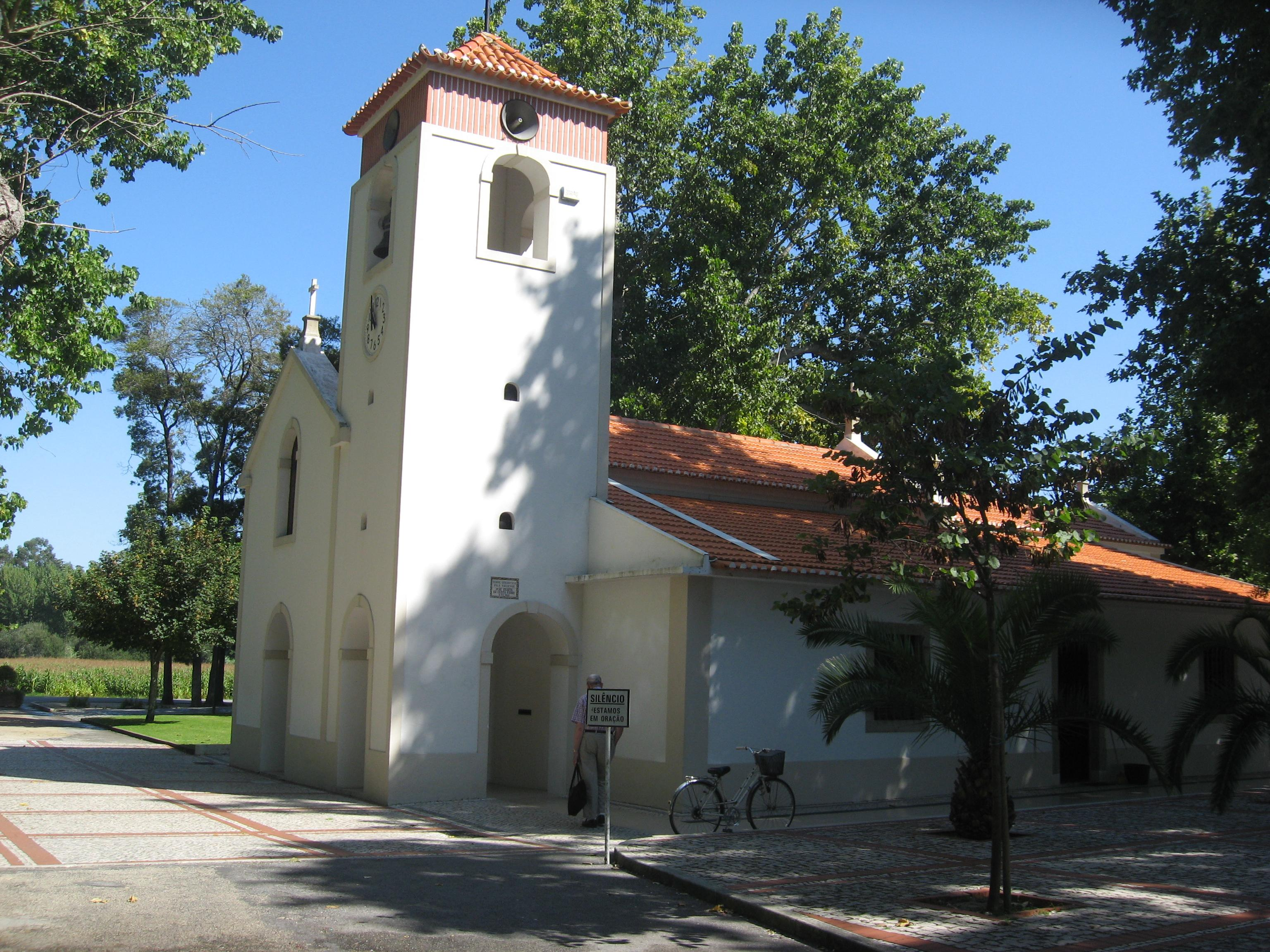 Our Lady of Vagos, Shrine of Vagos